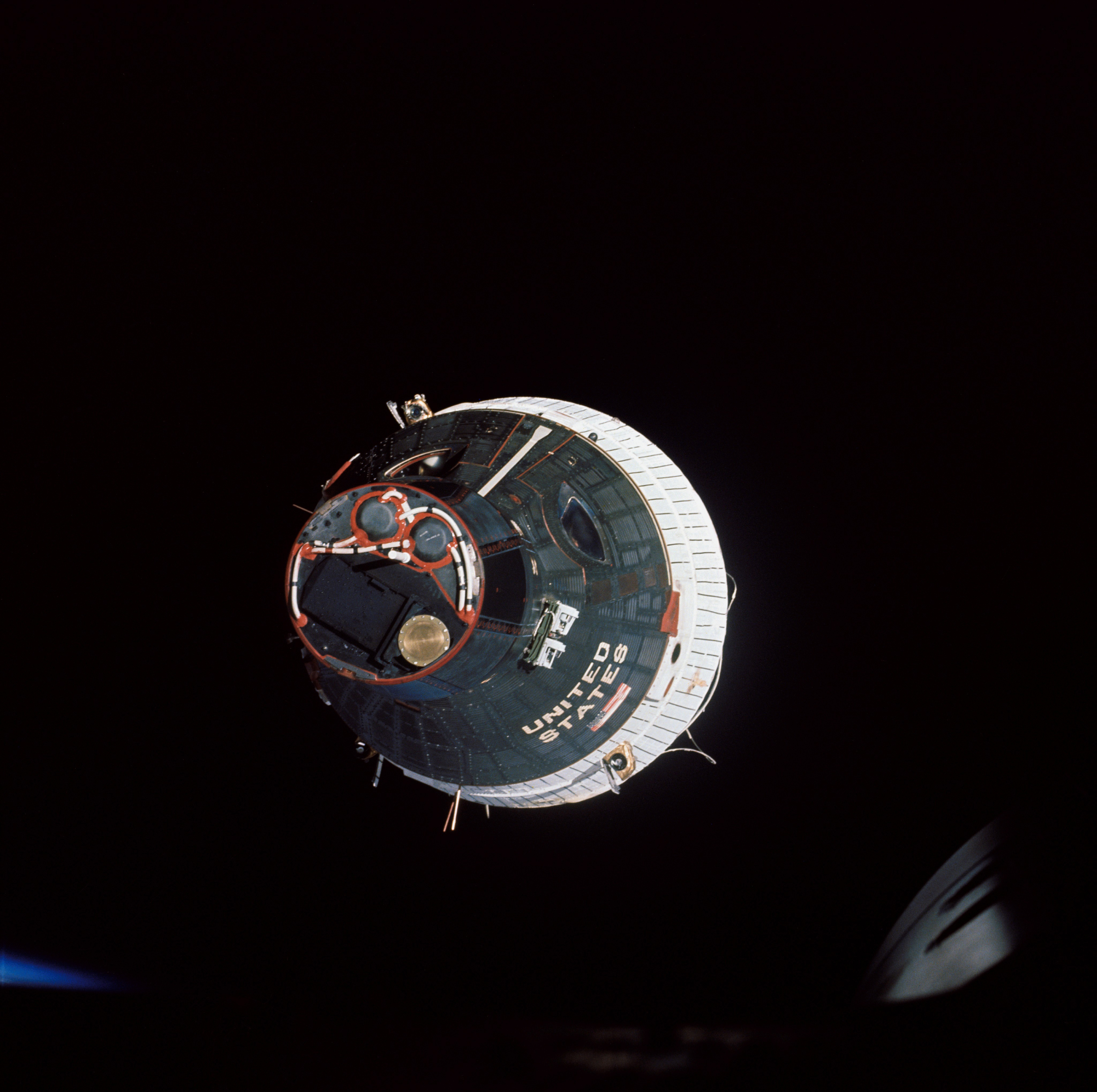 This photograph of the Gemini 7 spacecraft was taken from the hatch window of the Gemini 6 spacecraft during rendezvous and station-keeping maneuvers at an altitude of approximately 160 miles above the Earth. The two spacecraft are approximately nine feet apart. Gemini 6 and Gemini 7 launched on December 15, 1965 and December 4, 1965, respectively. Walter M. Schirra, Jr. and Thomas P. Stafford on Gemini 6 and Edward H. White II and Michael Collins on Gemini 7 practiced rendezvous and station keeping together for one day in orbit.